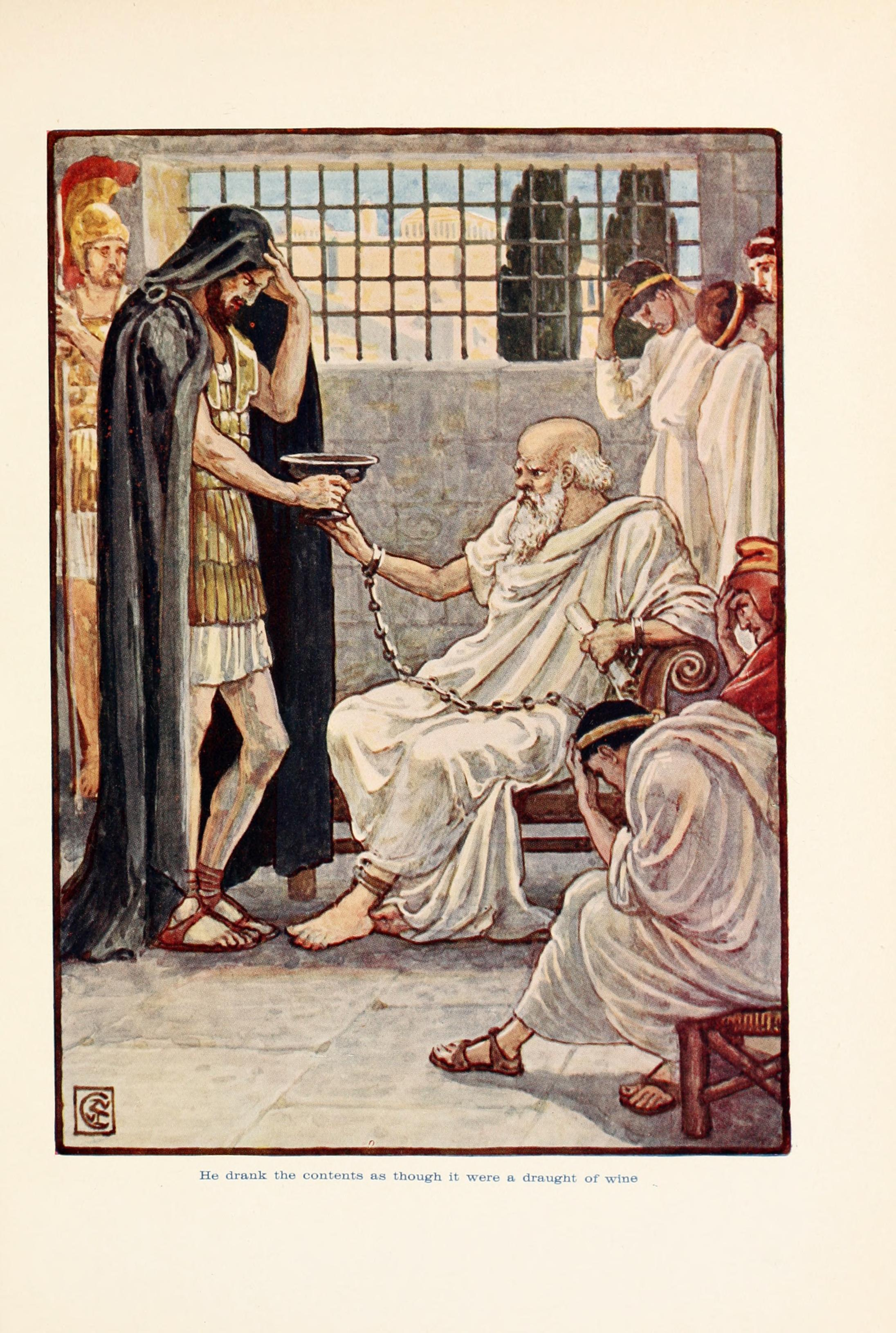 These stories from the history of ancient Greece begin with myths and legends of gods and heroes and end with the conquests of Alexander the Great. The book is accessible and well organized, but it is considerably more detailed than some other introductory texts. It covers Greek history from the age of Mythology to the rise of Alexander, but because of its length we do not recommend it for 5th grade or younger. It is an excellent reference, thoroughly engaging, and a good candidate for a somewhat older student's first foray into Greek history.